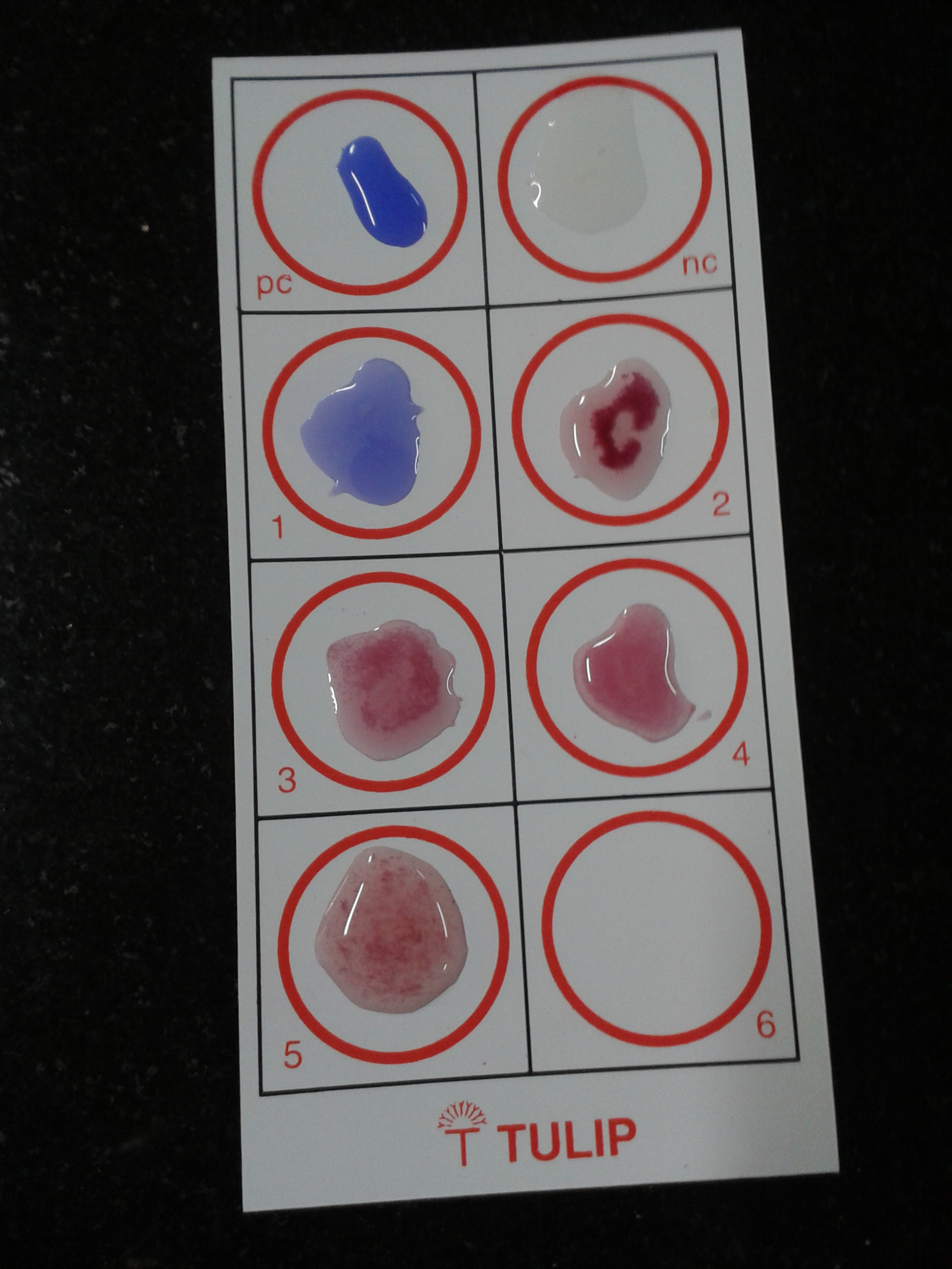 A Widal Test slide showing agglutinations in reactions of corresponding O and H antigens